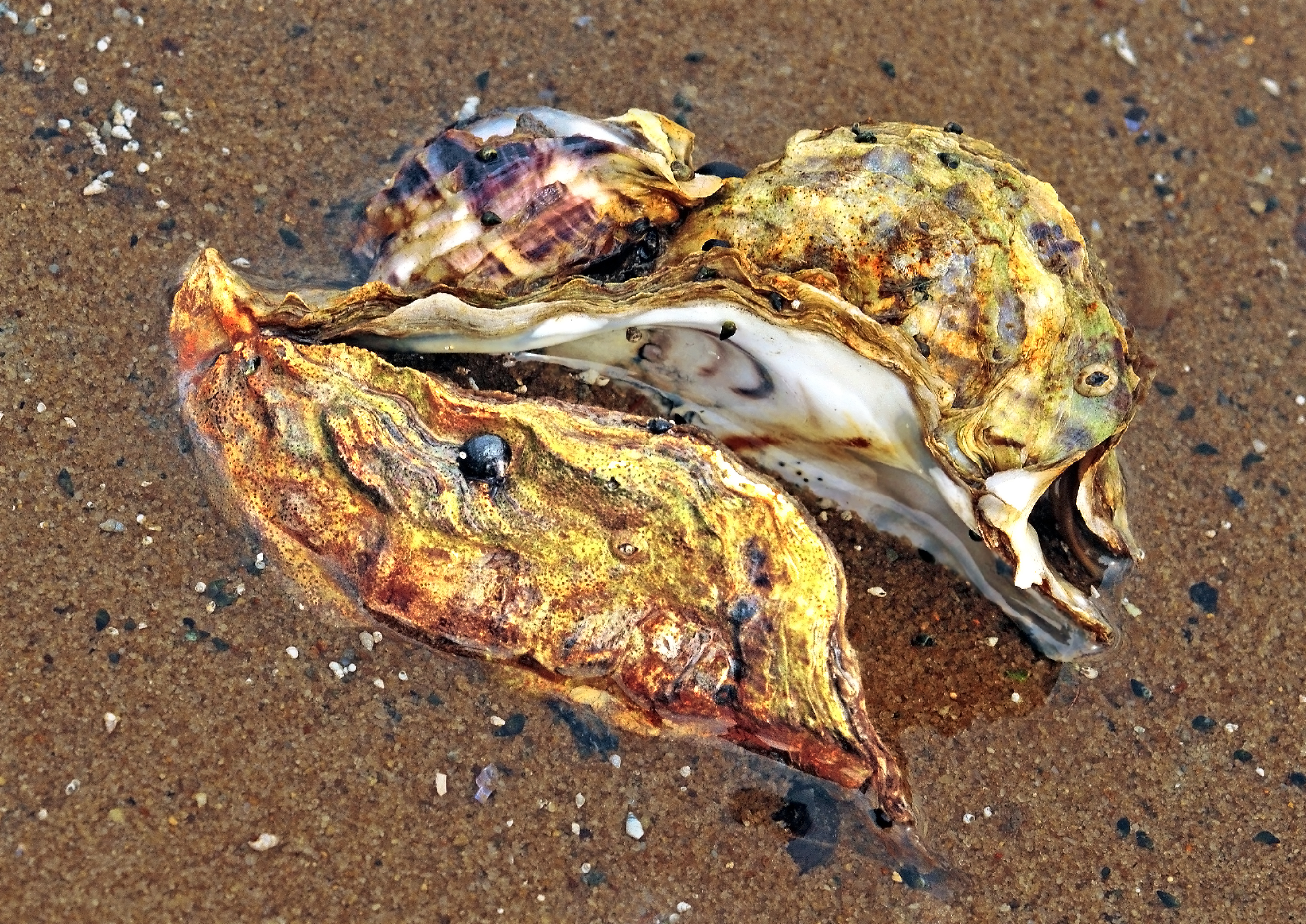 Shells by the Pacific oyster, found in the Mudflat by the Schleswig-Holstein Wadden Sea National Park nearby Kampen, Sylt, Germany. They are standing in the sea level by the returning flood.